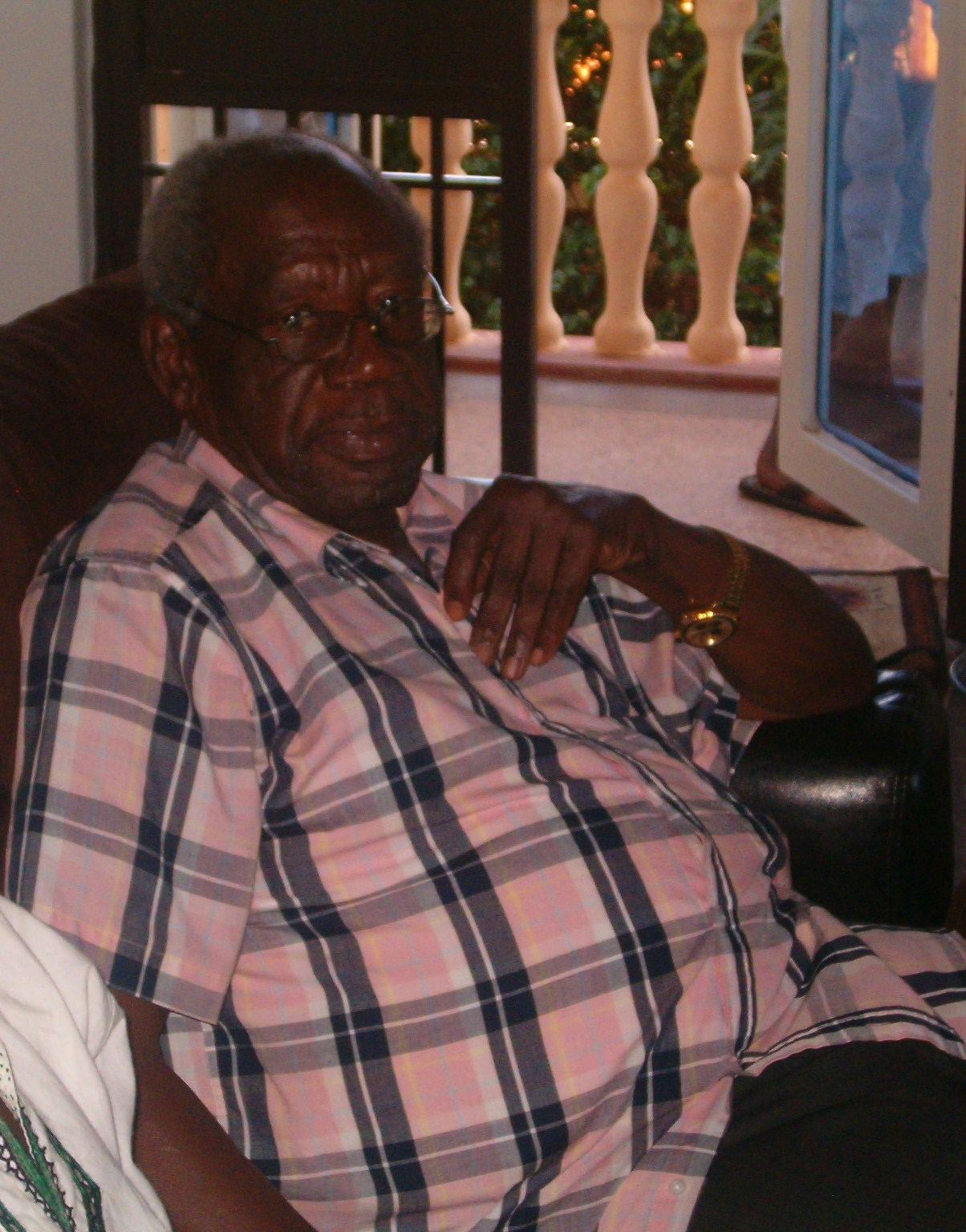 Family Photo of my grandfather.